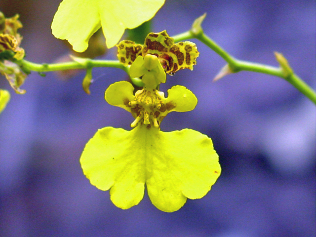 Oncidium batemannianum, Brazilian species, with labellum of great proportions in relation to the other petals and sepals. Photo by M. A. P. Accardo Filho.